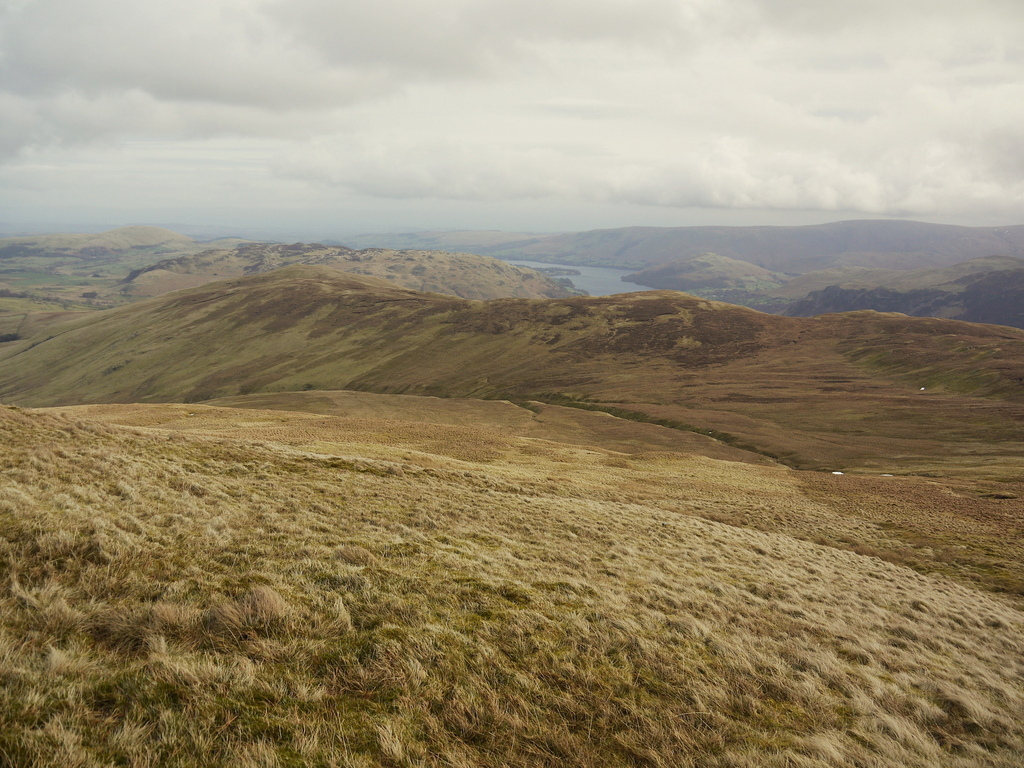 Watermillock Common seen from Birkett Fell